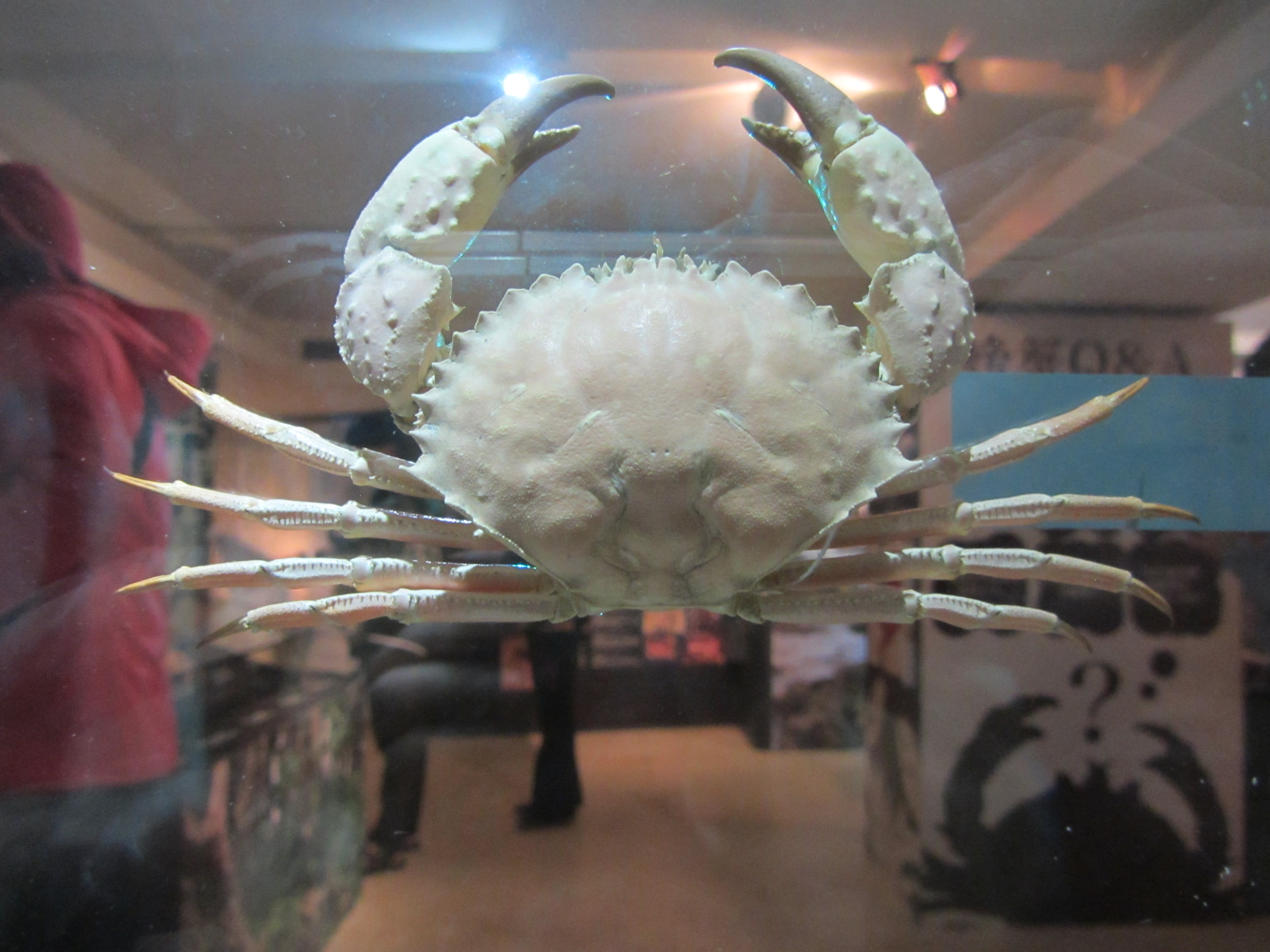 Specimen of Cancer nadaensis